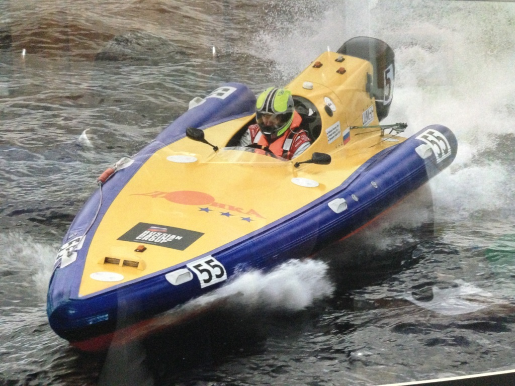 Alexander Kashapov